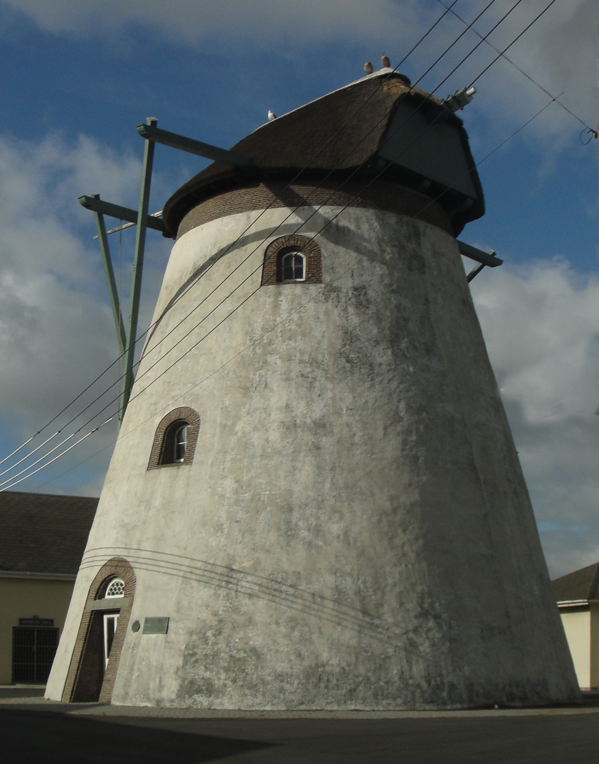 De Nieuwe Molen (front view) This media shows a South African Protected Site with SAHRA file reference 9/2/018/0279/001.